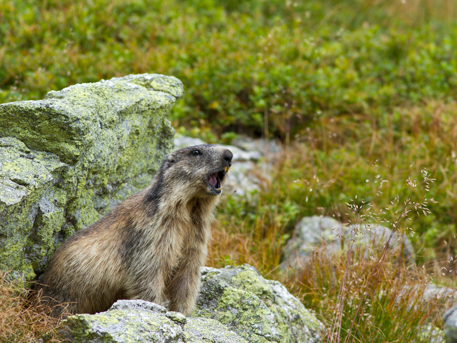 M. marmota latirostris in Račkov Zadok, Western Part of Tatra Mountains, Slovakia